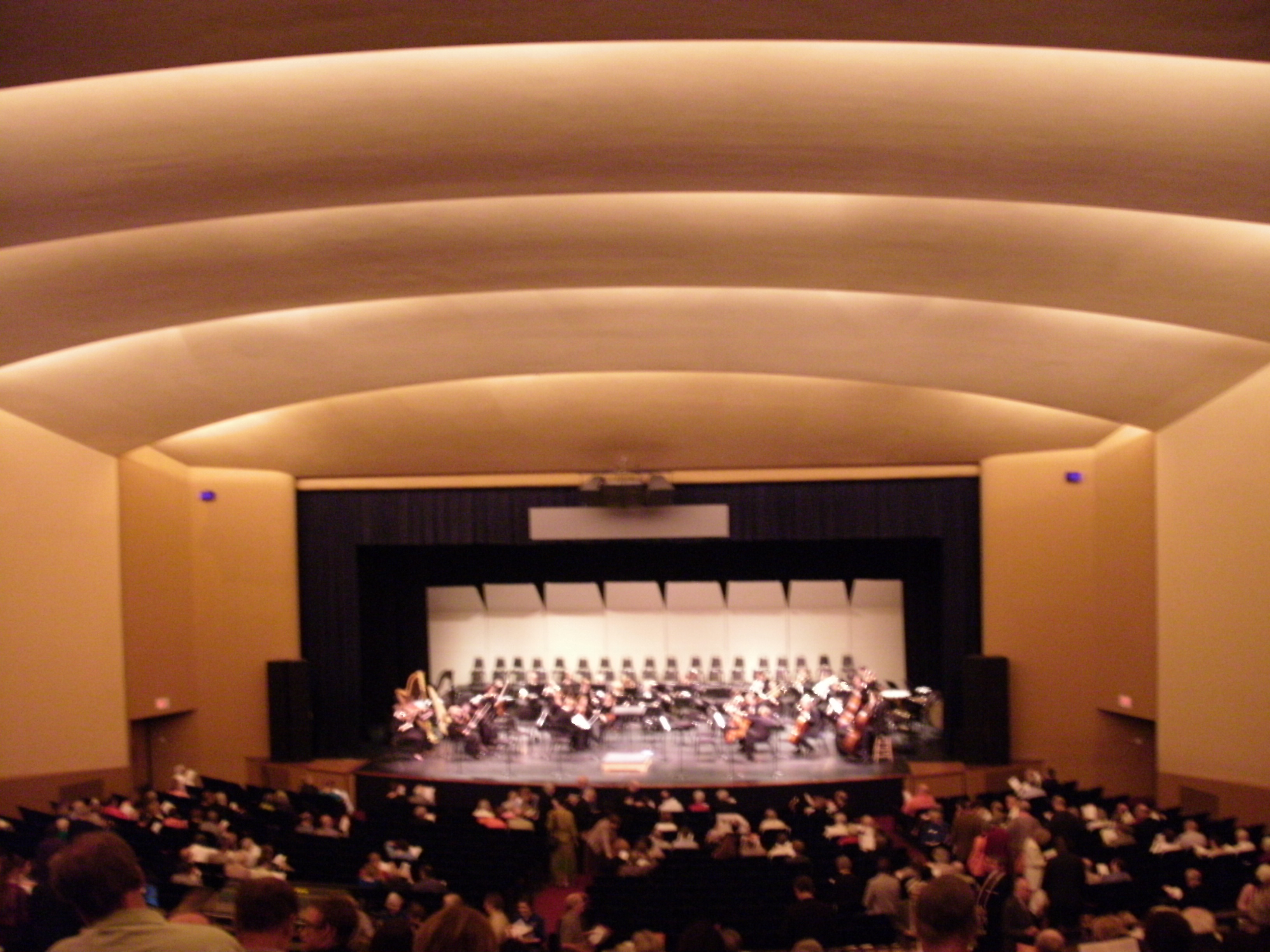 Lisner Auditorium at GWU GEDSC DIGITAL CAMERA